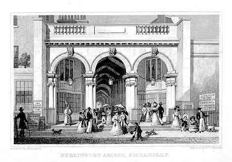 Burlington Arcade by Thomas Hosmer Shepherd 1827-28.